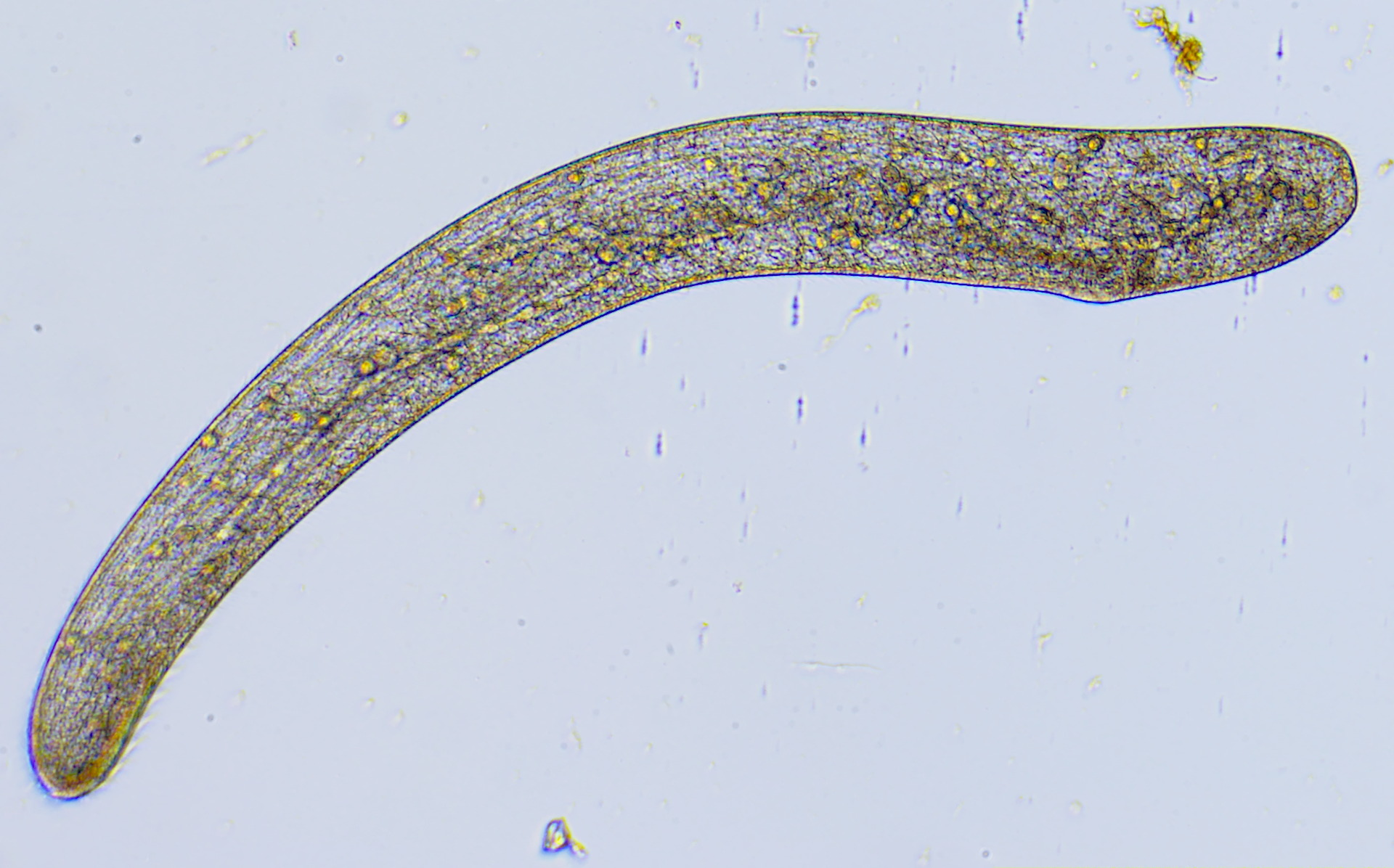 A Spirostomum (probably ambiguum) photomicrography showing its moniliform macronucleus